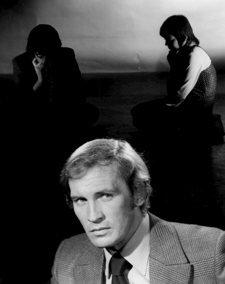 Photo of Roy Thinnes as Doctor James Whitman from the short-lived television program The Psychiatrist.